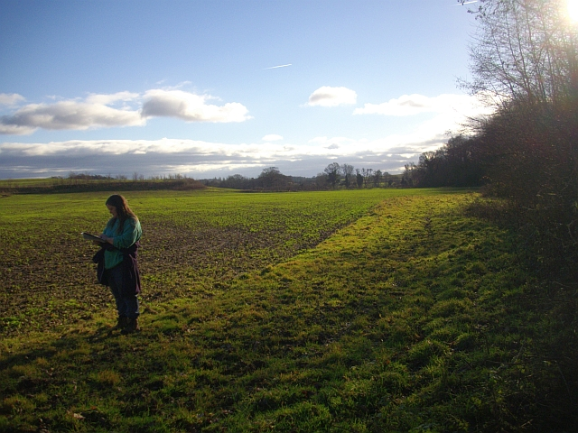 Wide field margin near Clenchers Mill The Glynch Brook is on the right with Webb's Coppice whilst the wide flood plain is on the left. The wide field margin helps prevent fertilizer and pesticide pollution contaminating the brook and provides useful firm ground for the walker when the right of way has been ploughed out.